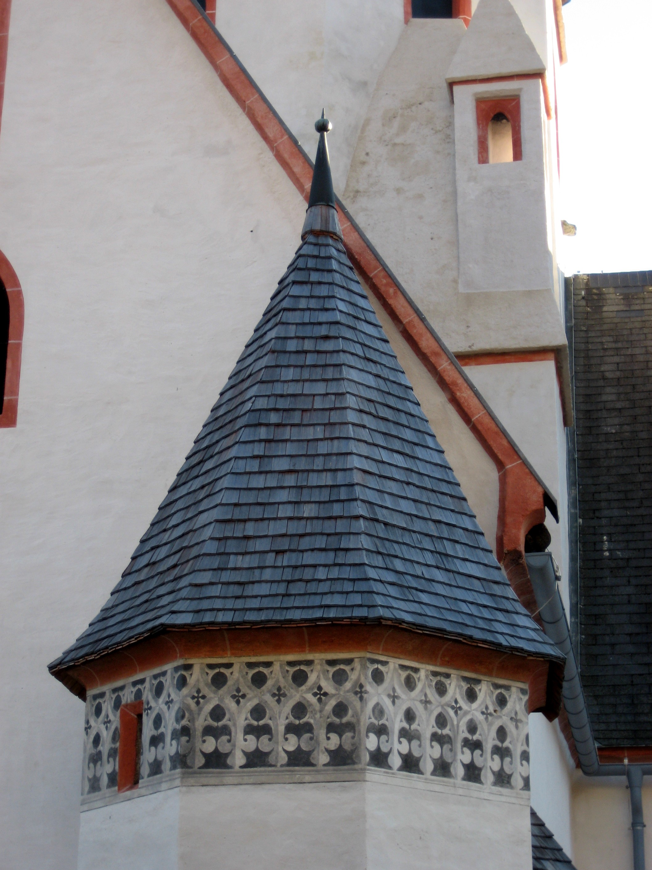 Murau in Styria, Austria: parish church, detail